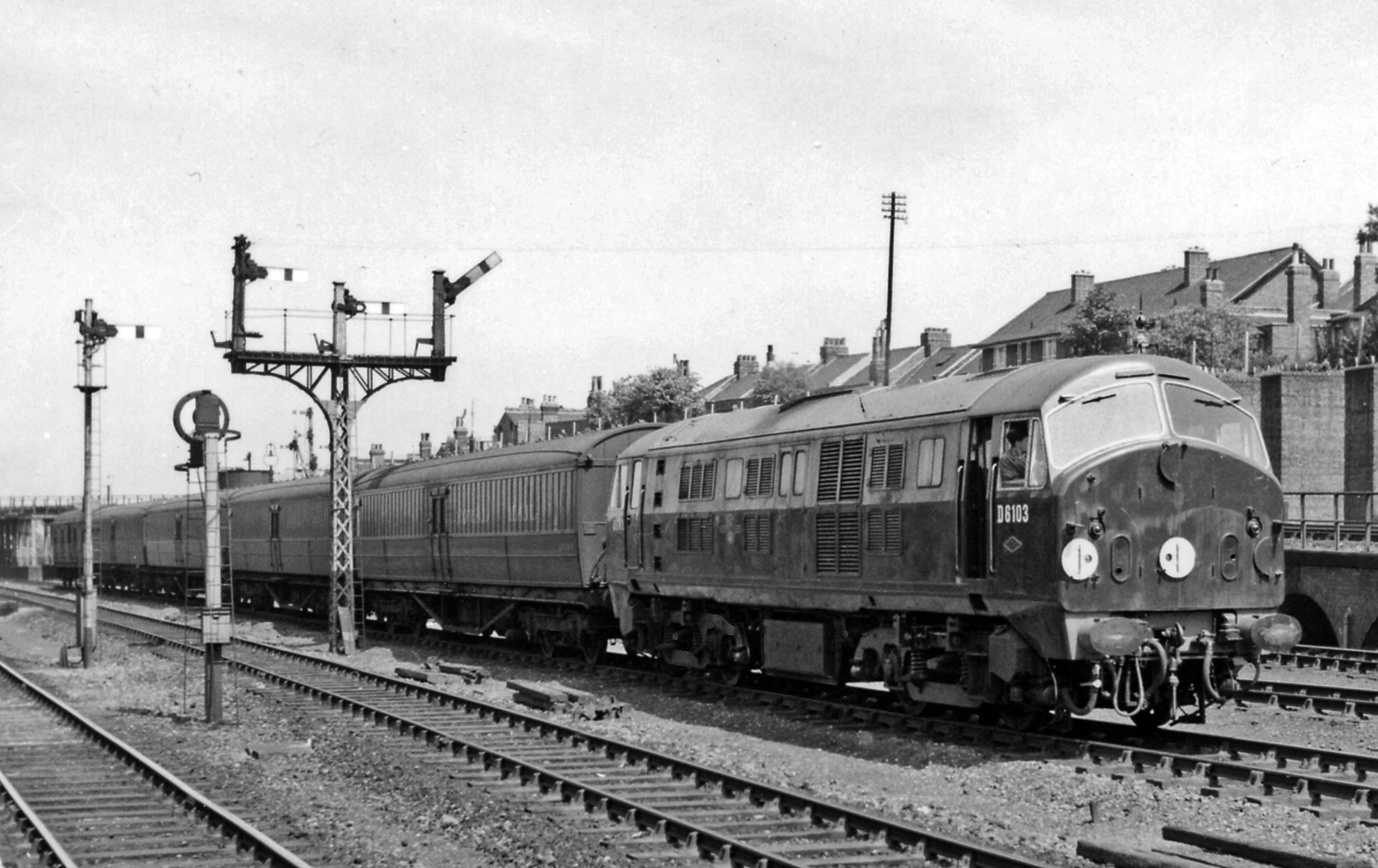 NB Loco Bo-Bo Diesel at Harringay West. View northward at Ferme Park South Up; brand-new NBL/MAN No. 6103 Type 2 (later Class 21) is bringing empty mail vans. This was during the early evaluation by BR of main-line Diesels under the 1955 Modernization Plan. This Class proved particularly unreliable and were soon sent up to the Scottish Region where they did not last long. (Cf. TQ3188 : Birmingham Railway Carriage & Wagon Co. Diesel at Harringay West).